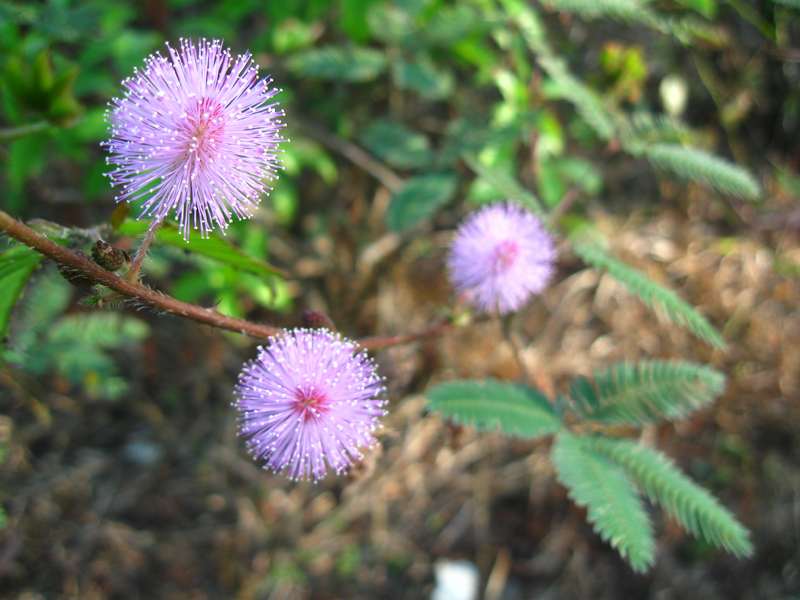 3 mimosa flowers with compound leaf